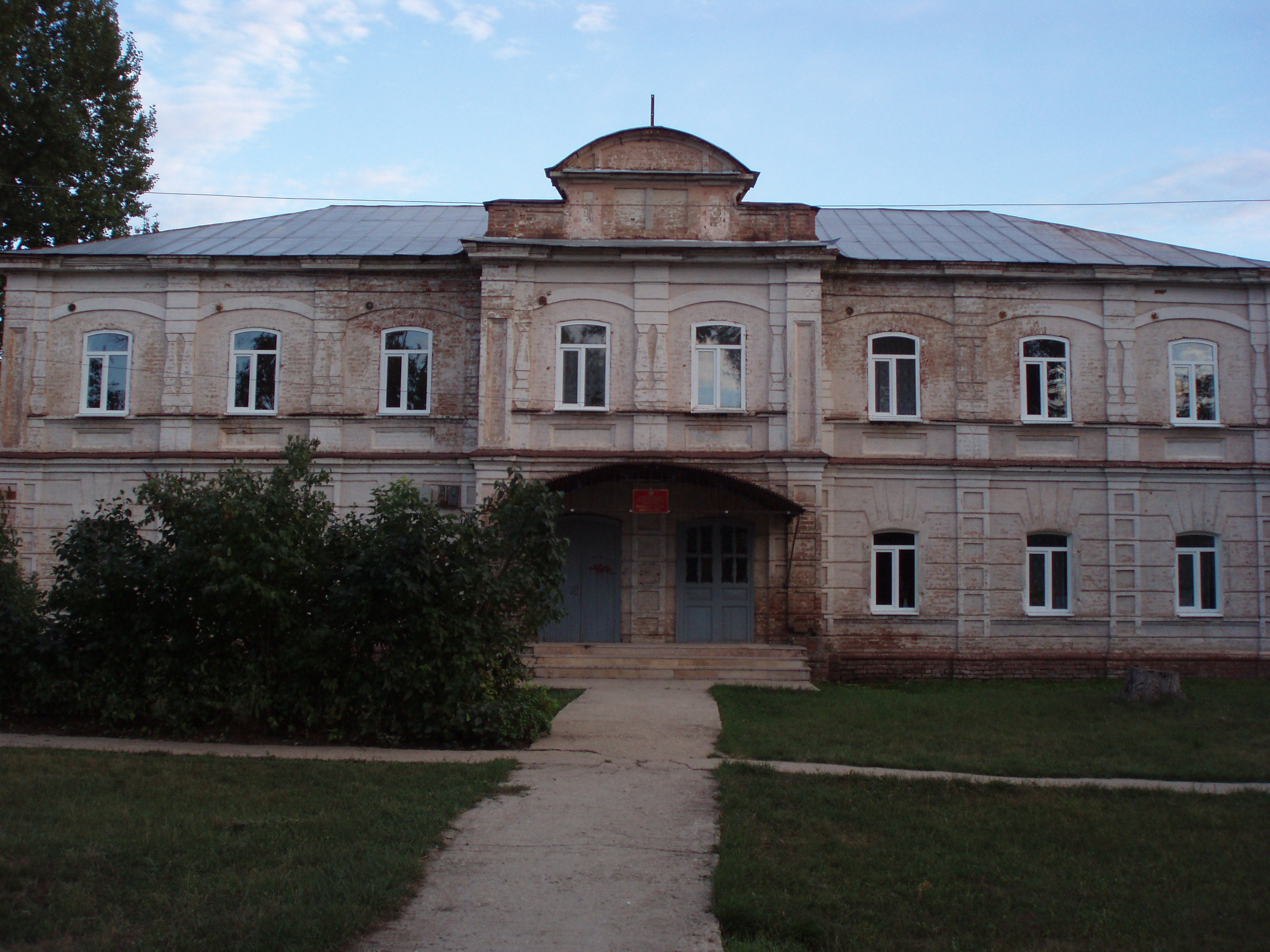 ancient building